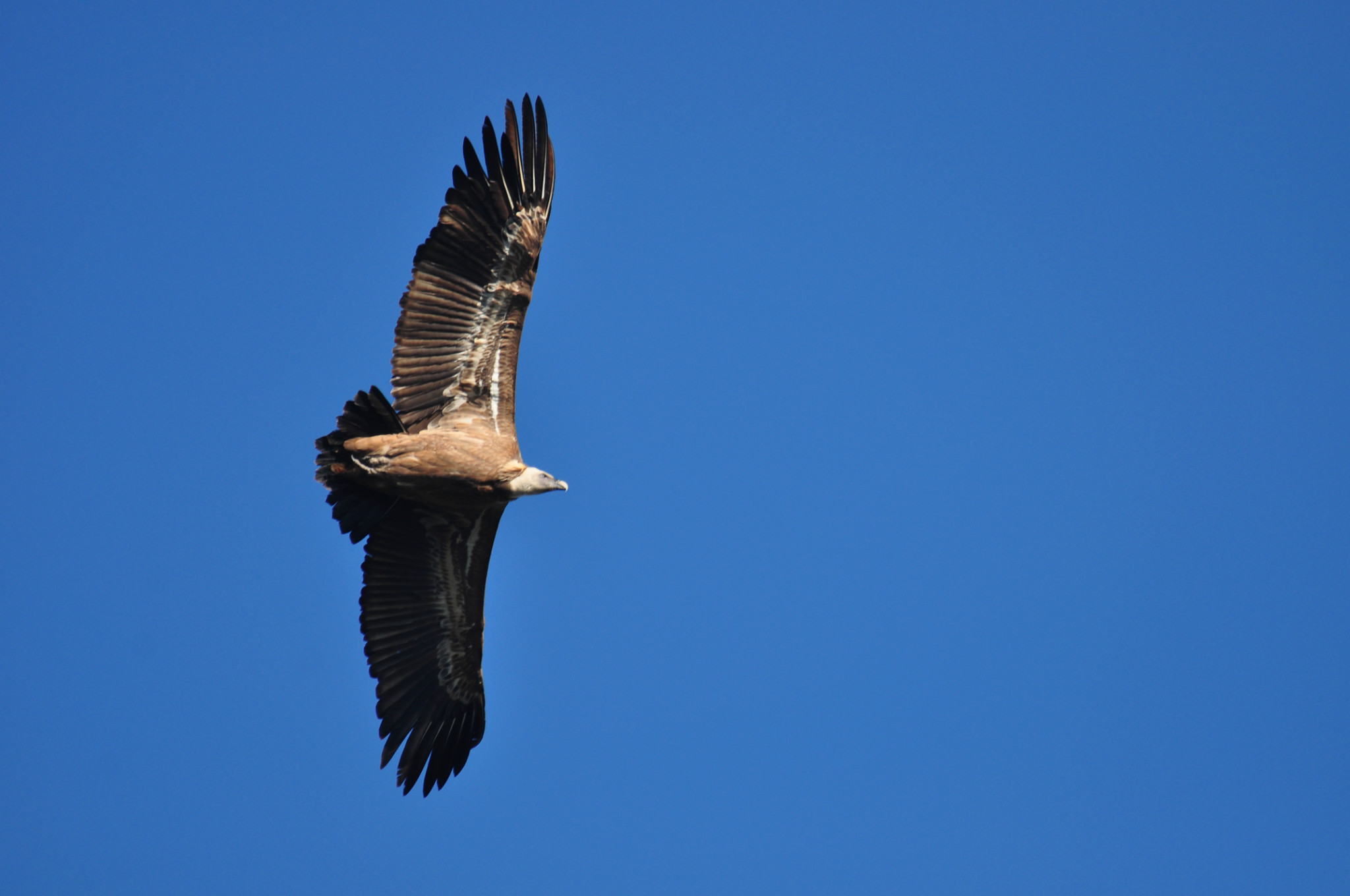 Buitre Leonado sobrevolando Sierra de Esparteros, Morón de la Frontera, Sevilla